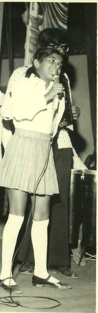 A young Hema Sardesai performing at a show at GMC, c.1979. Her father, Dr Kashinath Sardesai, was a professor of Forensic Medicine at GMC.